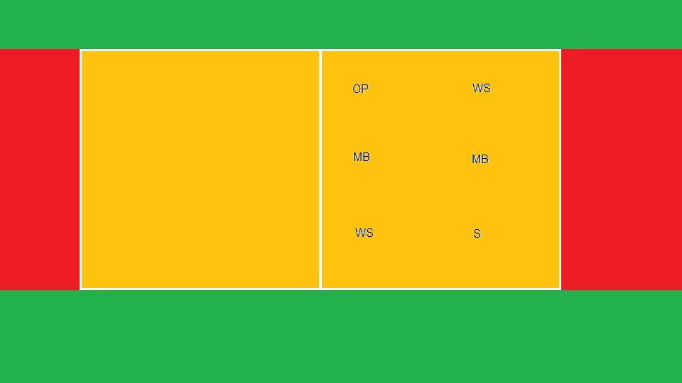 service zone of volleyball